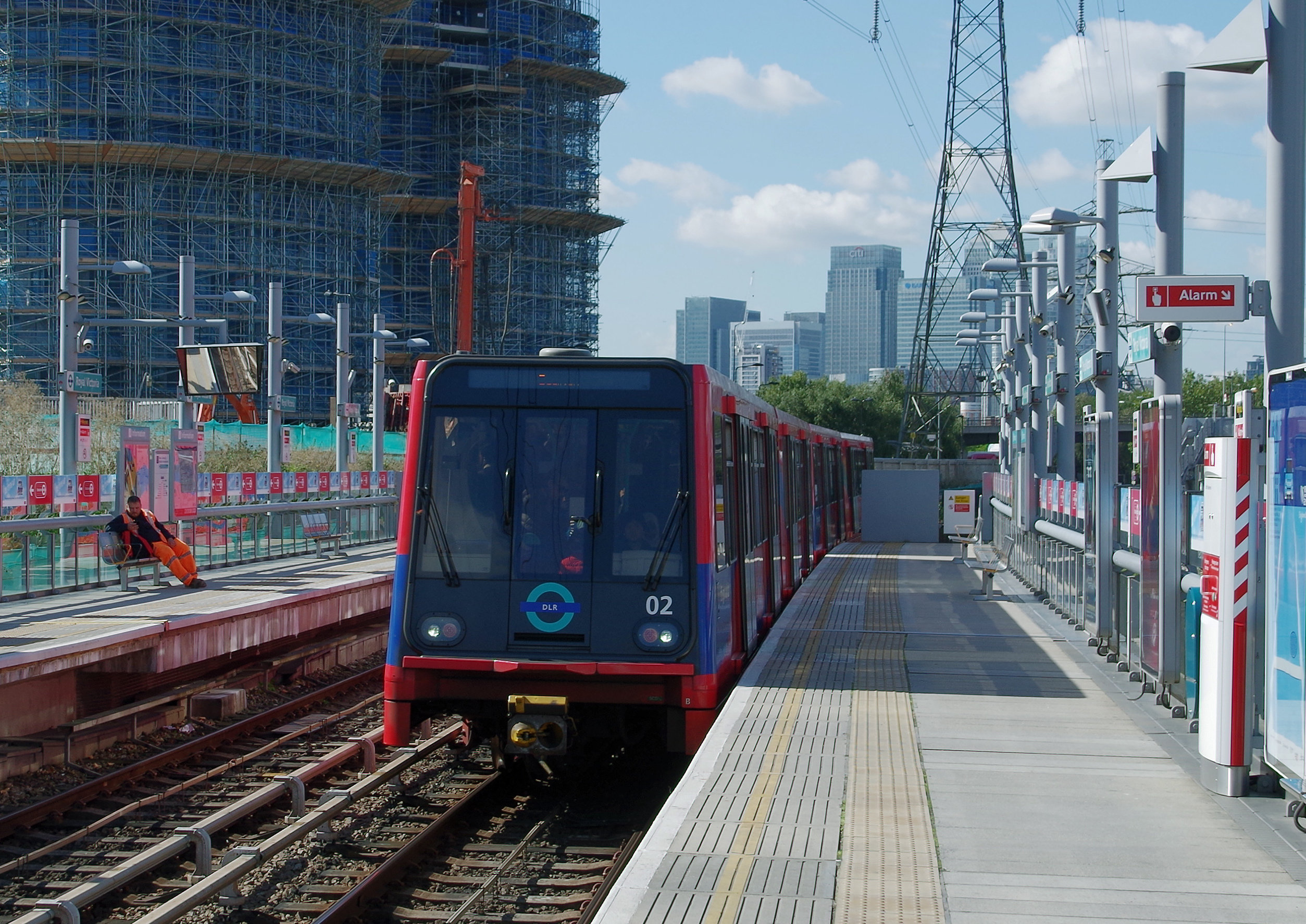 A Beckton train (02), with the new black front arrives at Royal Victoria DLR station. Cropped from original by jcc.